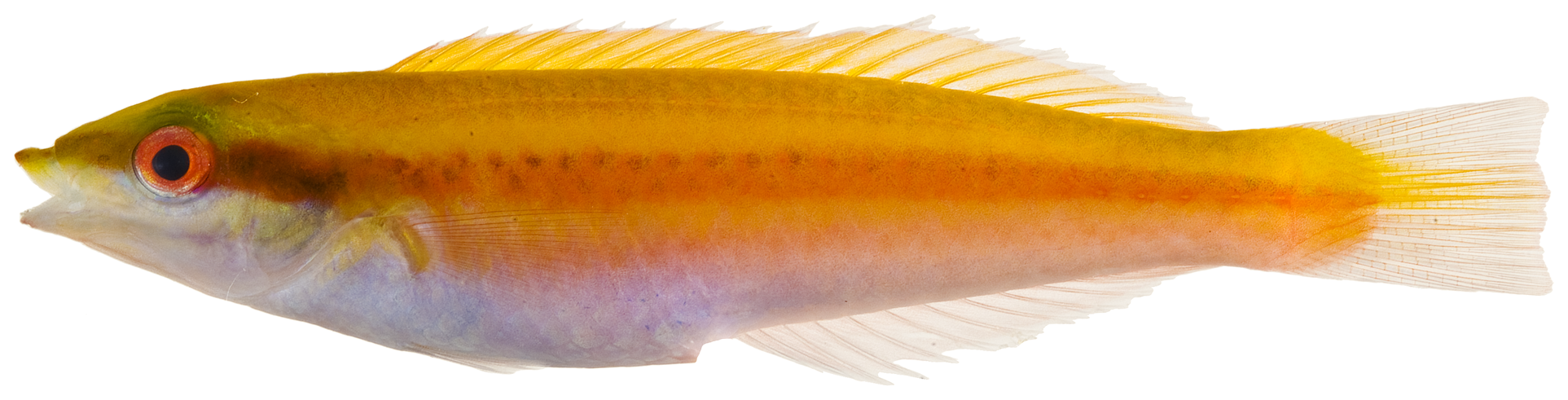 Halichoeres pictus (Poey, 1860)—rainbow wrasse, 70.7 mm SL, juvenile color phase. Photo by JT Williams.